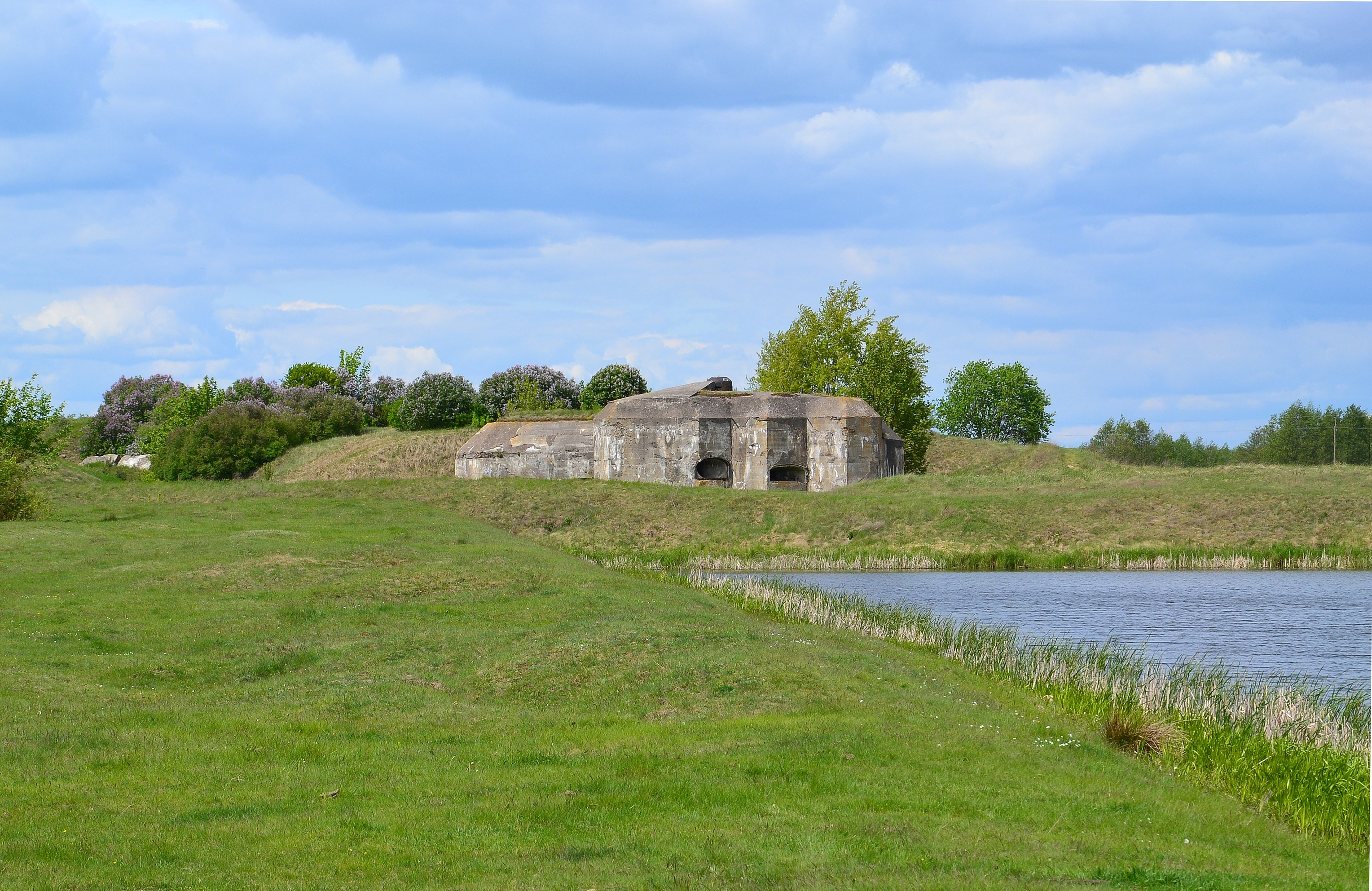 Osowiec Fortress, Poland - Fort II